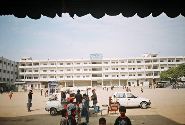 the campus view of st.Paul's high school in karachi, pakistan